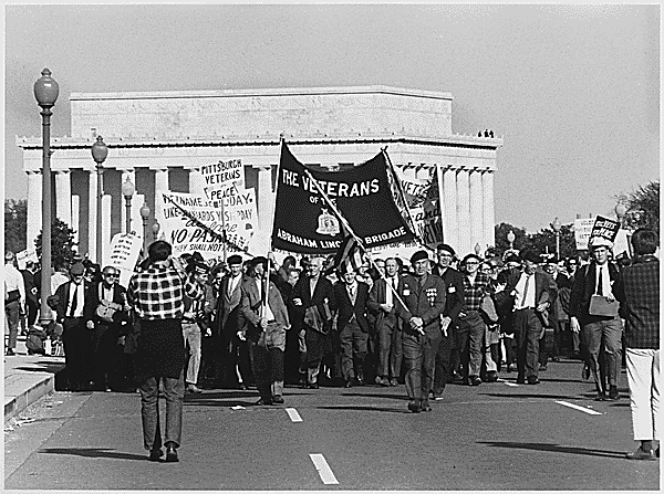 Vietnam War Protesters on Memorial Bridge, Washington, D.C., October 1967 ARC Identifier: 192604 Title: Public Reactions: The March on the Pentagon, 10/21/1967 Creator: President (1963-1969 : Johnson). White House Photograph Office. (1963 - 1969) Frank Wolfe Date: October 1967 Location: Washington, District of Columbia. Depicted: Abraham Lincoln Brigade; Pittsburgh Veterans for Peace. Access Restrictions: Unrestricted Use Restrictions: Unrestricted Variant Control Number(s): Other Identifier: 7052-3 NAIL Control Number: NLJ-WHPO-A-VN124